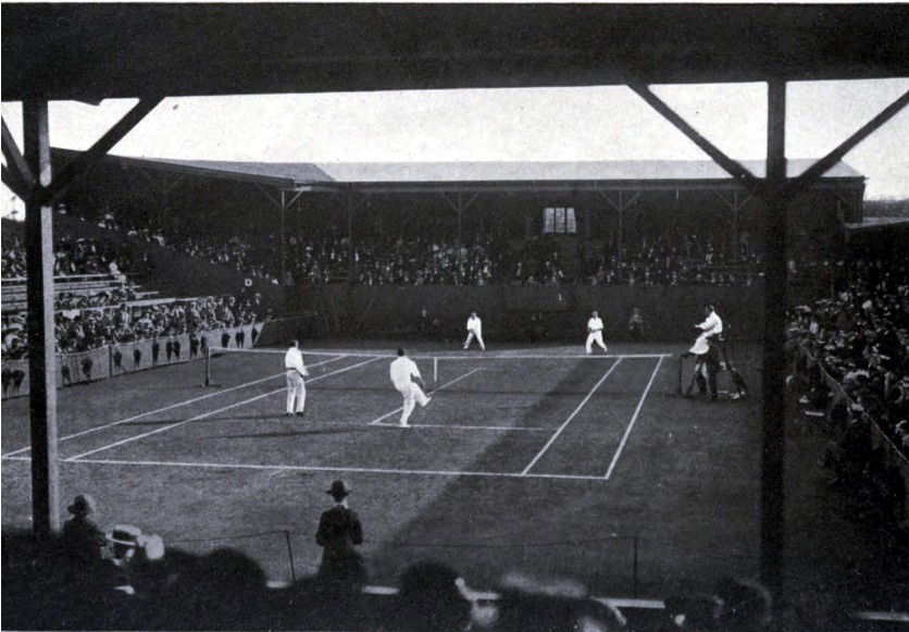 Wimbledon men's doubles final, from left: Josiah Ritchie and Tony Wilding (this side of the net) vs. Herbert Roper Barrett and Arthur W. Gore